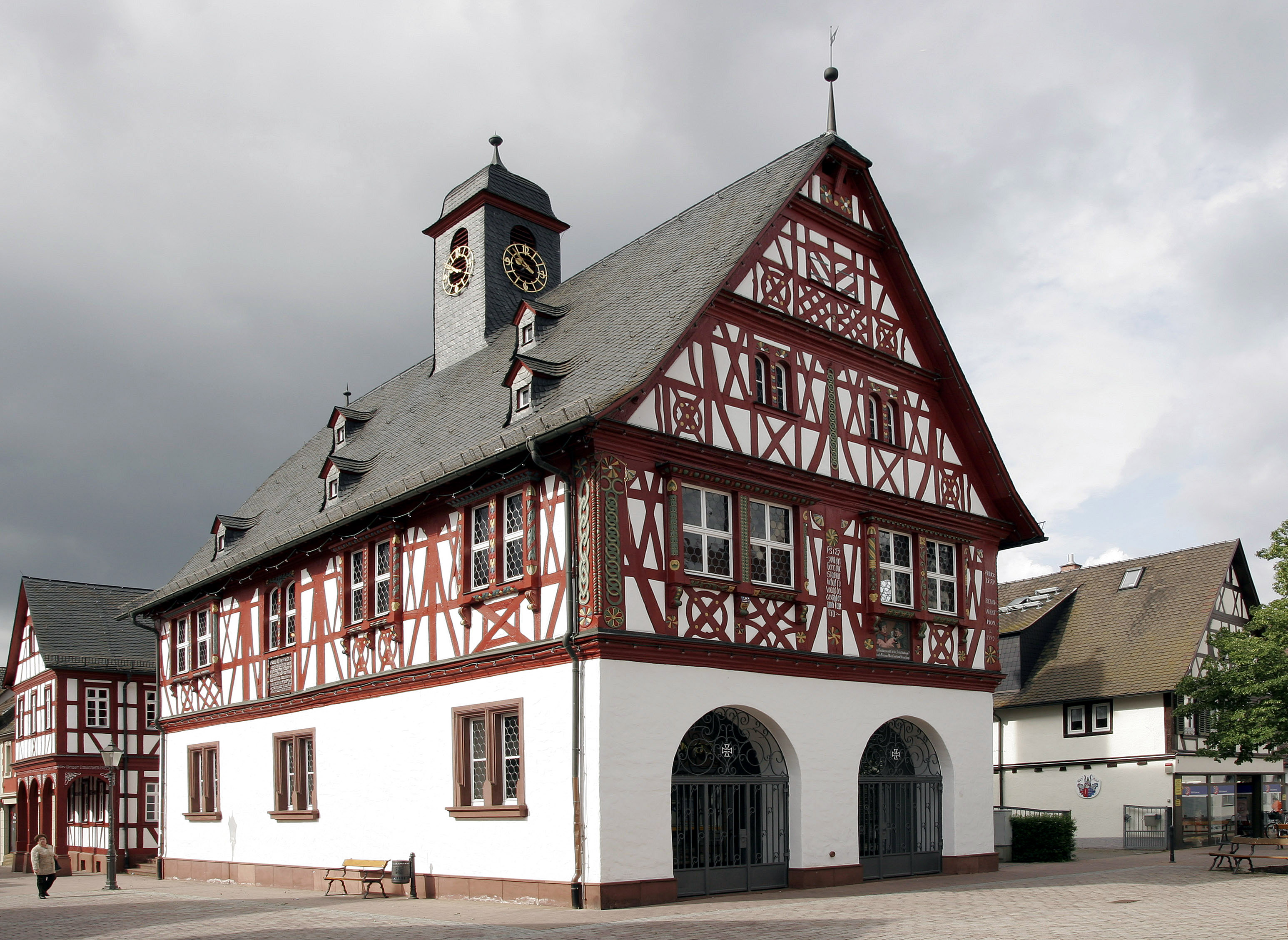 The Old City Hall of Groß-Gerau, Hesse, Germany